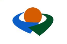 Flag of Shikokuchuo Ehime